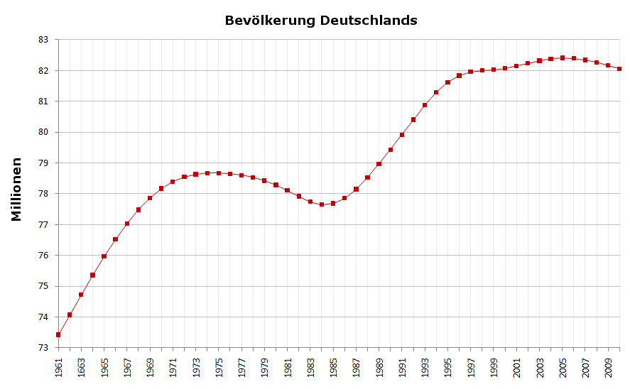 File:Germany demography.png, german text